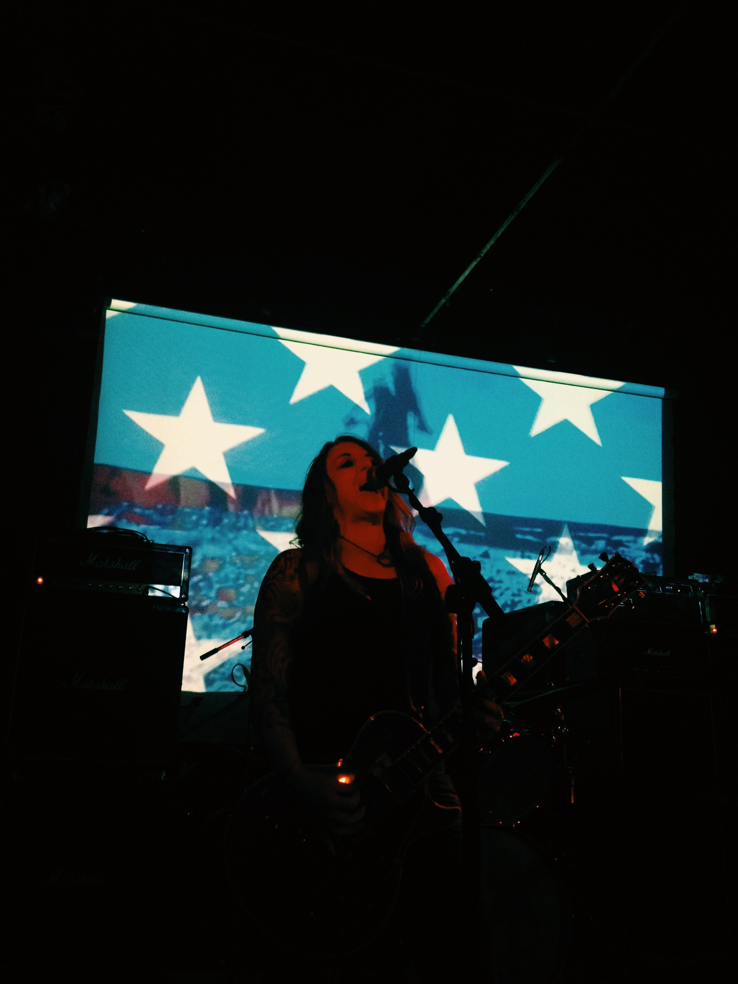 Acid King